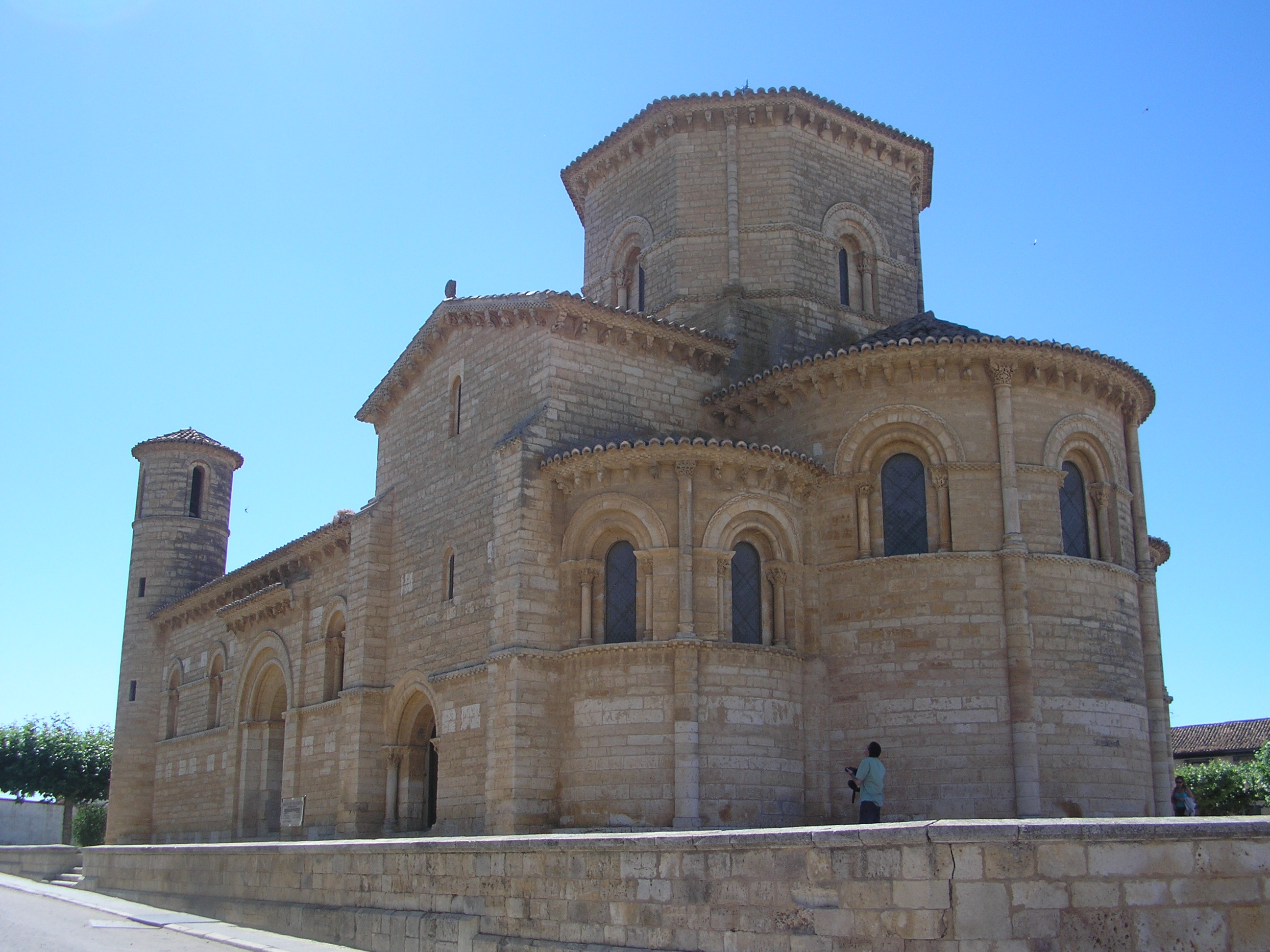 Church of San Martín of Fròmista.